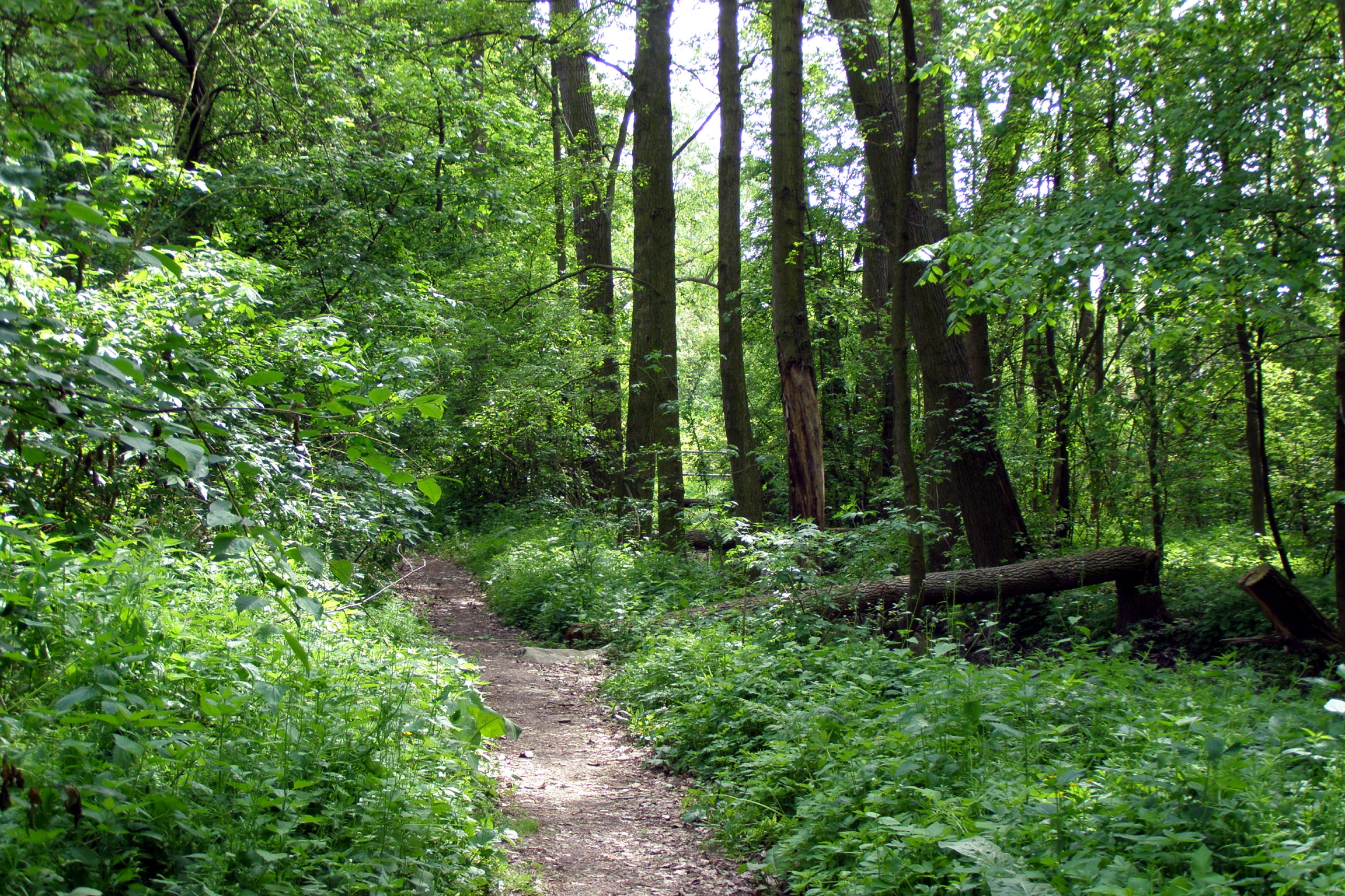 Jaroměřice nad Rokytnou. Prehistoric location Bydliska, Hradisko along Rokytka streem